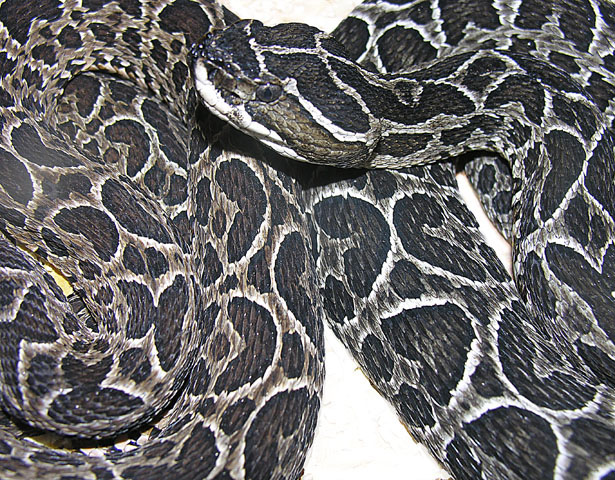 Dark phase of the Crossed Viper or Yarara Grande, Centro Anaconda Serpentarium, Mendoza, Argentina.